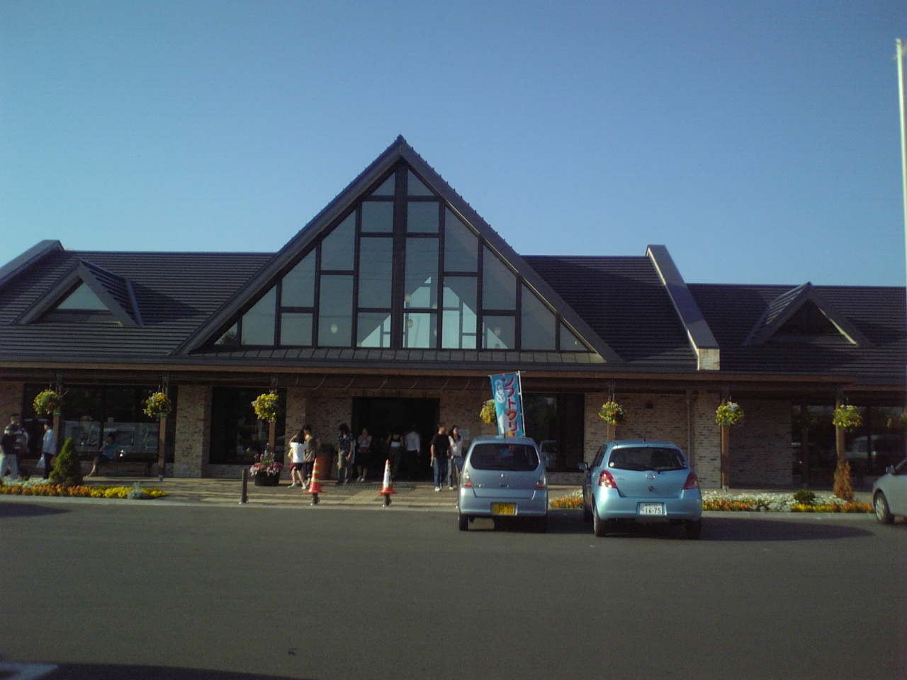 Michinoeki(Roadside Station) Hana Road Eniwa (Eniwa, Hokkaido)